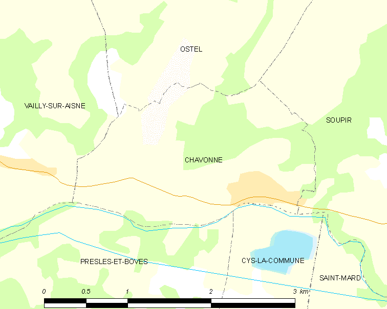 Map of French commune: Chavonne Map commune FR insee code 02176.png